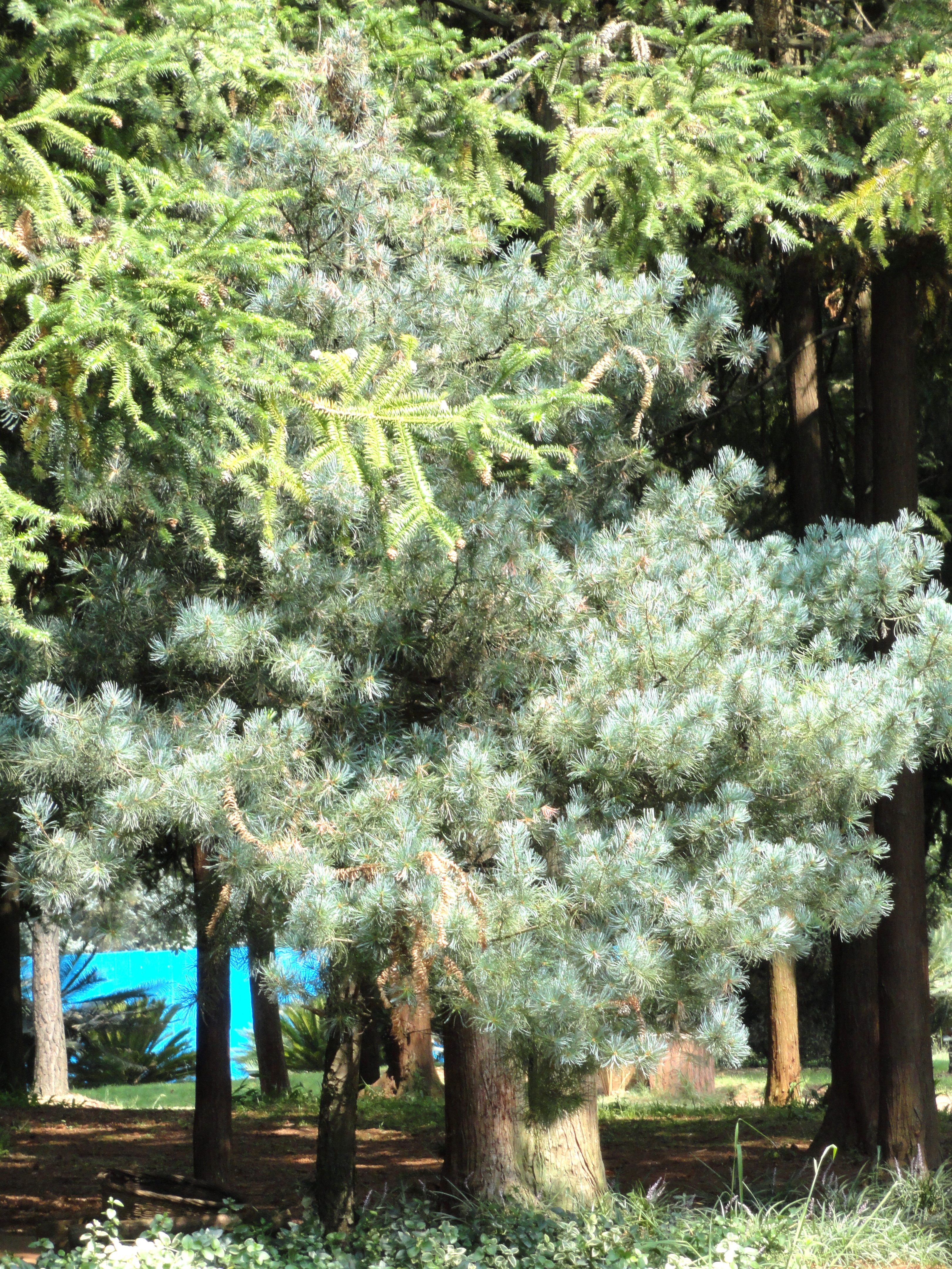 Pinus wangii specimen in the Kunming Botanical Garden, Kunming, Yunnan, China.